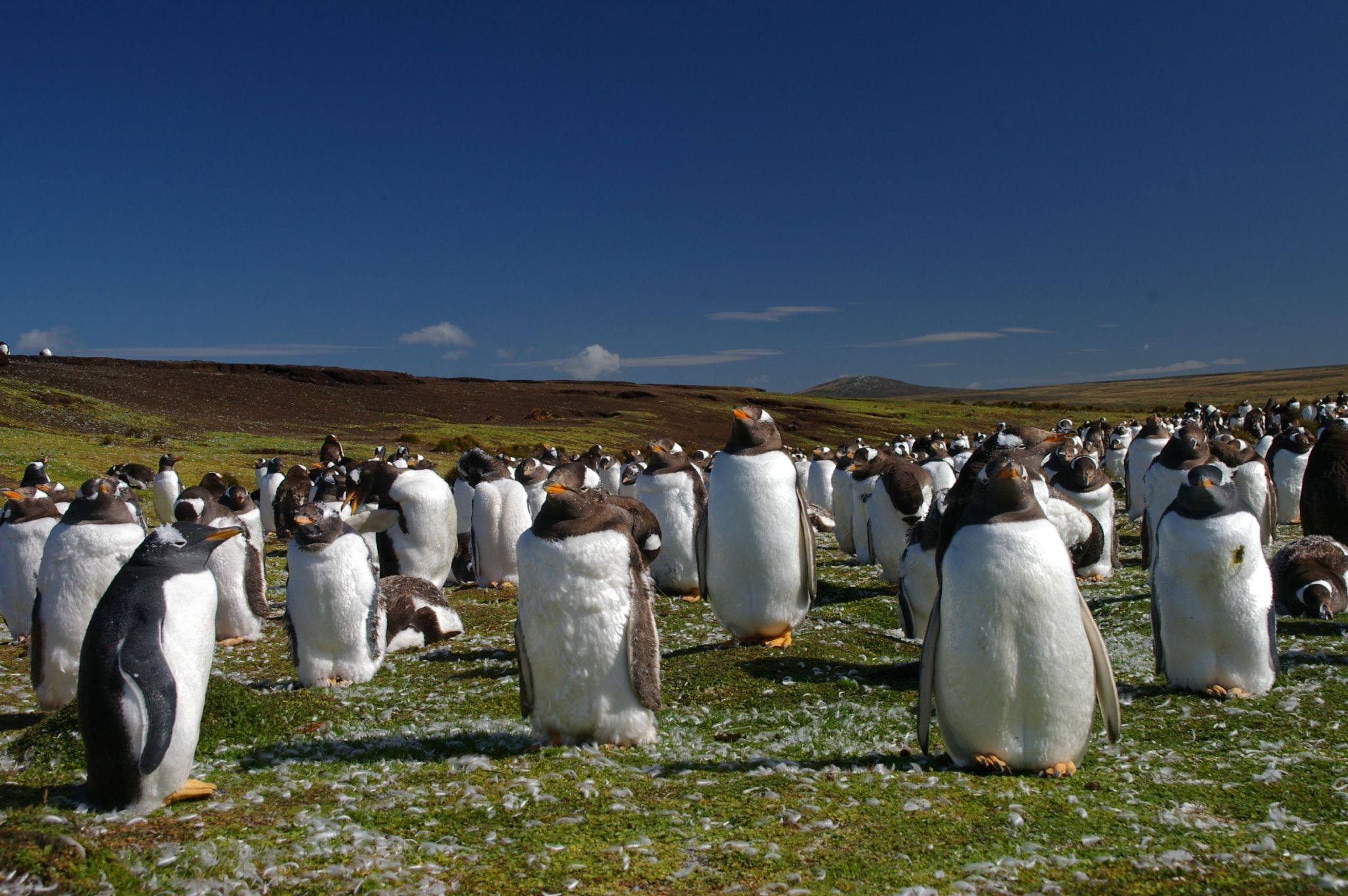 Gentoo Penguins (Pygoscelis papua), West Falkland